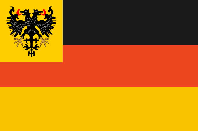 War Flag on ships of the German Empire 1848-1852, the Reichsflotte Navy (2:3)